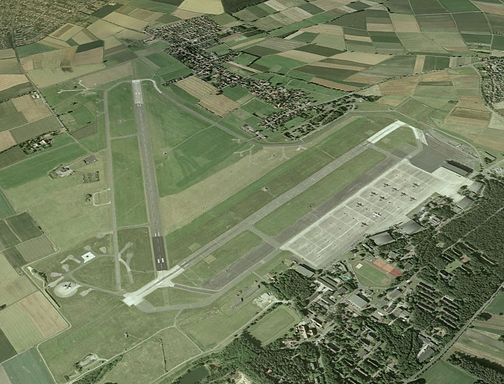 Fliegerhorst Wunstorf, Germany